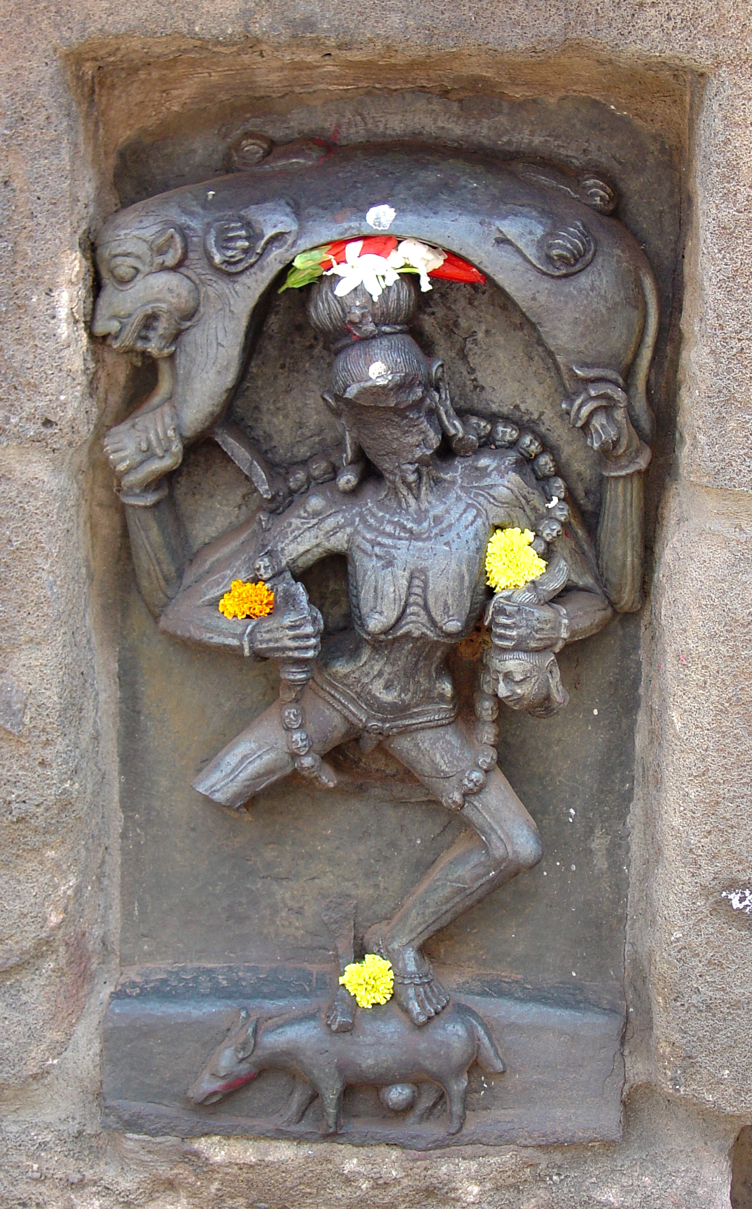 Chamunda. Chausath Yogini Temple, Hirapur Fearsome Chamunda, the goddess of death and decay, dances on a jackal (associated with the cremation grounds), beneath a flayed tiger skin. The four-armed goddess wears a garland of skulls, and holds a severed head in her lower left hand.